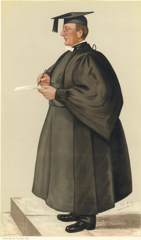 Caricature of Edmond Warre - "The Head".